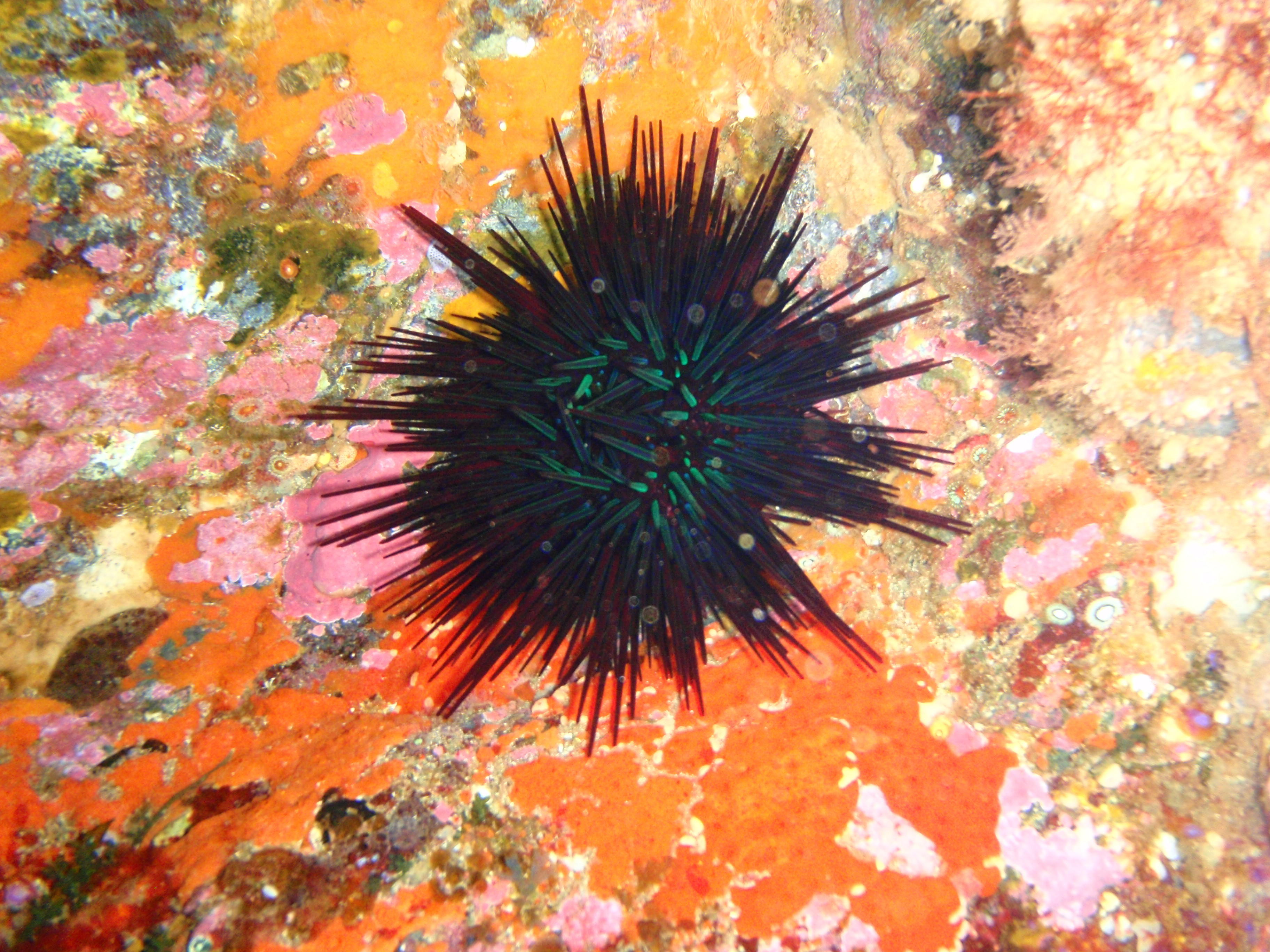 Sea urchin (Centrostephanus rodgersii) at South East Bay, Three Kings Islands